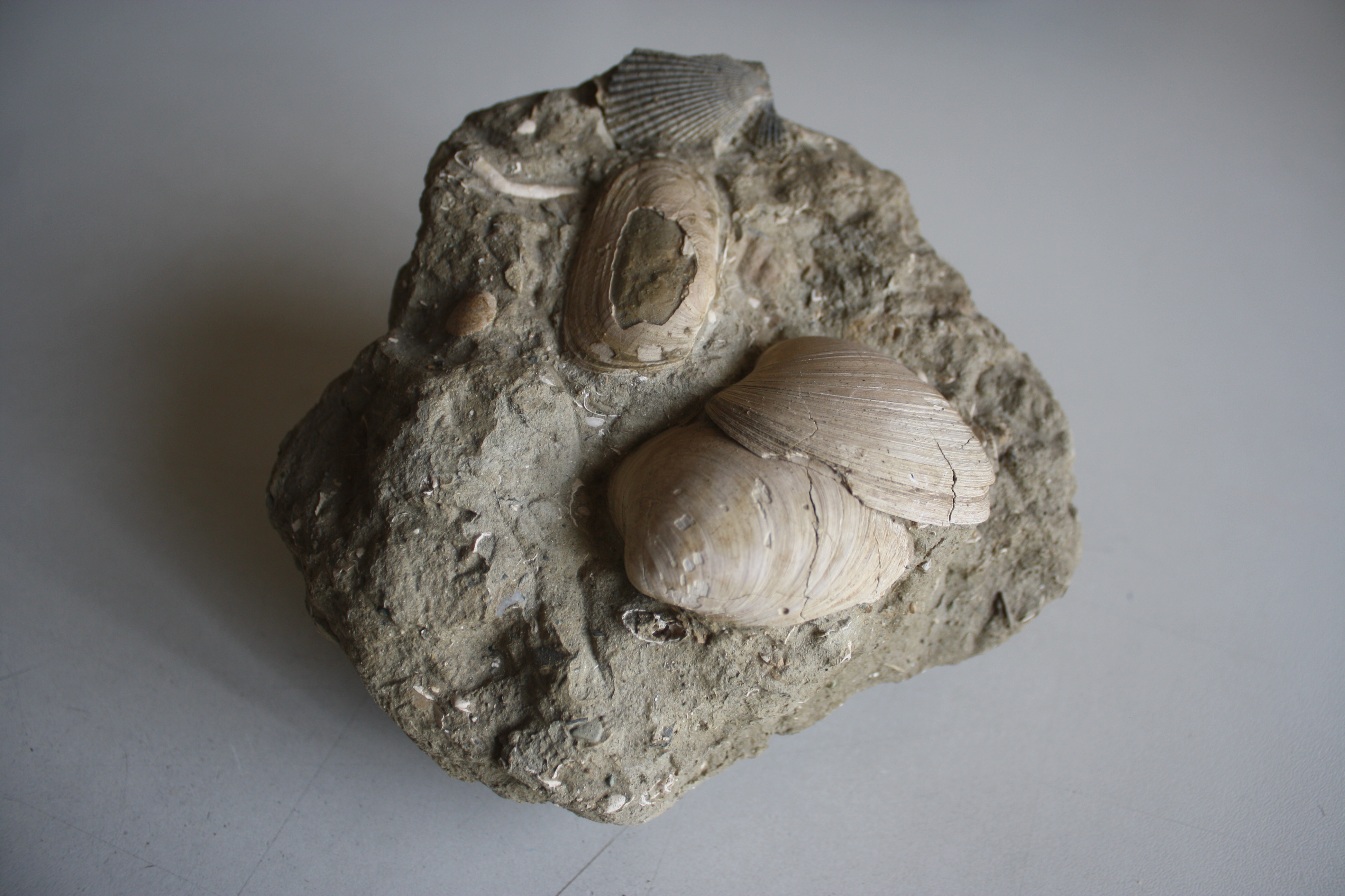 Fossil group with (from top to bottom) Sinodia, Solecurtus and Chlamys.